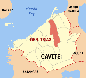 Map of Cavite showing the location of General Trias